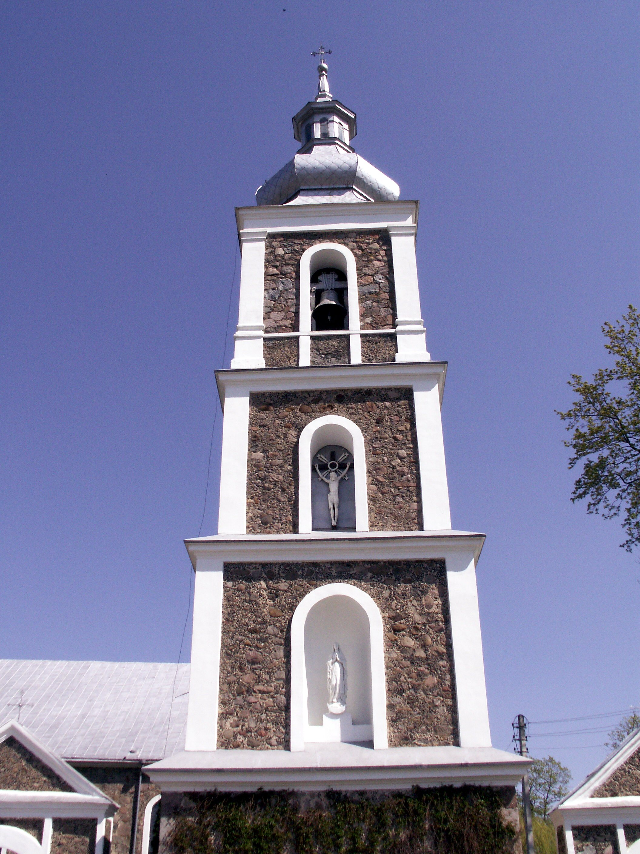 Eišiškės Churche, Šalčininkai district, Lithuania